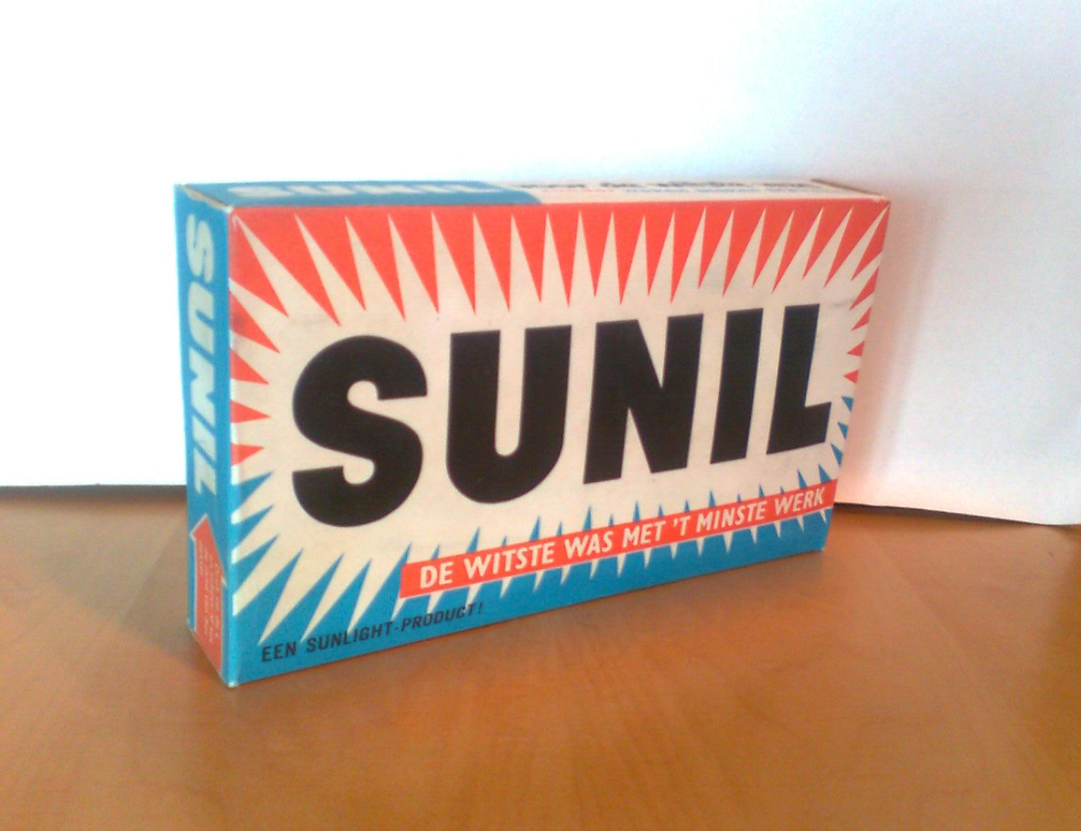 Old Photo of Sunil packaging